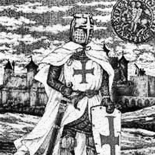 James de Plymouth - artwork by Jacquemart de Hesdin